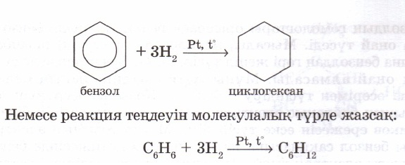 Бензолдан циклогексан алу жолы